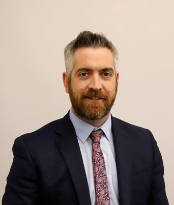 Irish politician Christopher O'Sullivan of Fianna Fáil, taken in 2020.